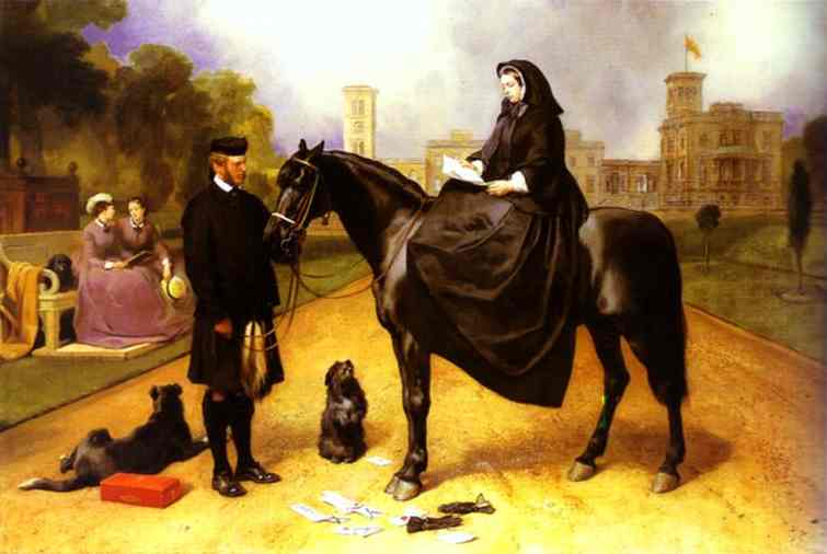 Queen Victoria at Osborne House